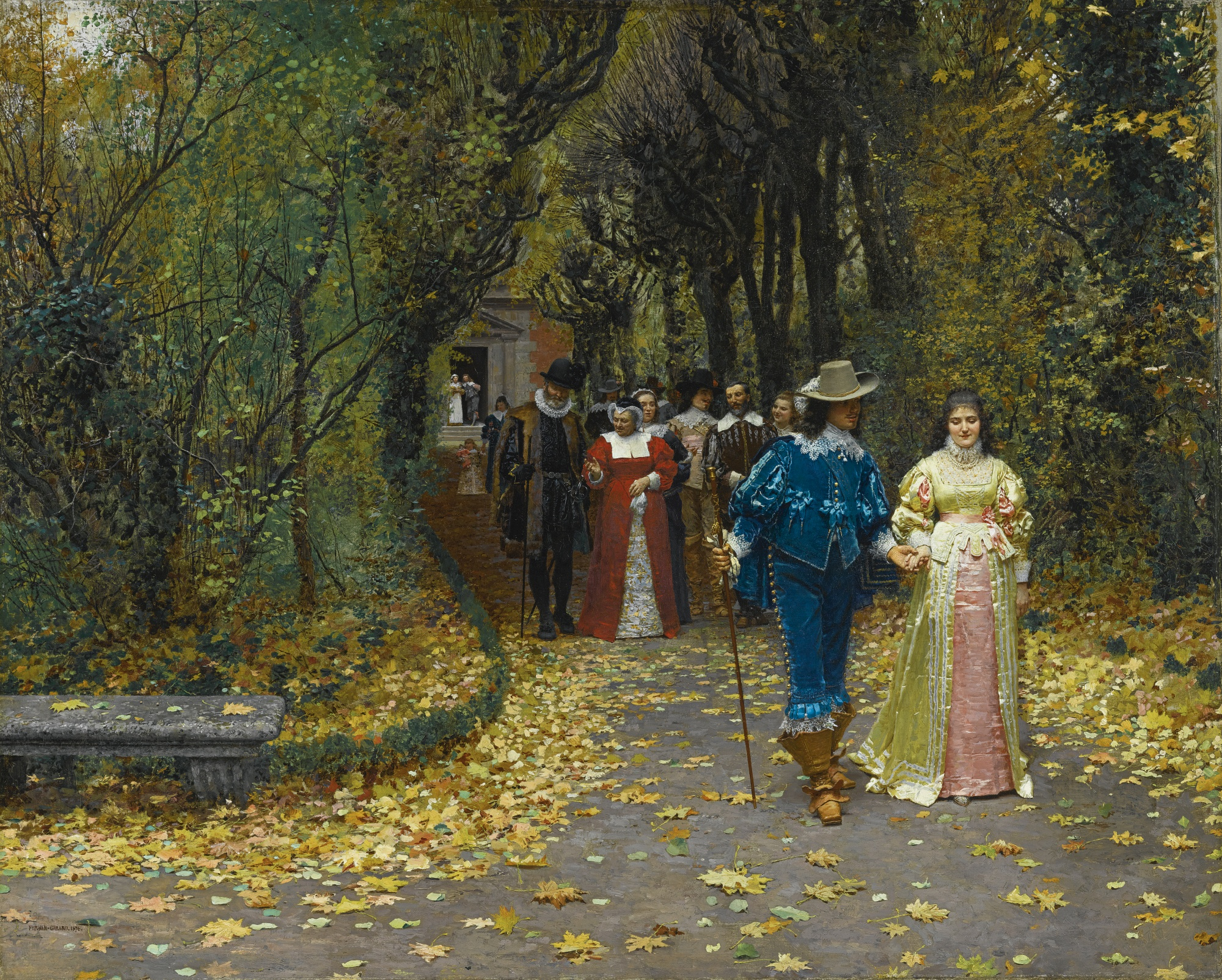 Marie-François Firmin-Girard. The Betrothed